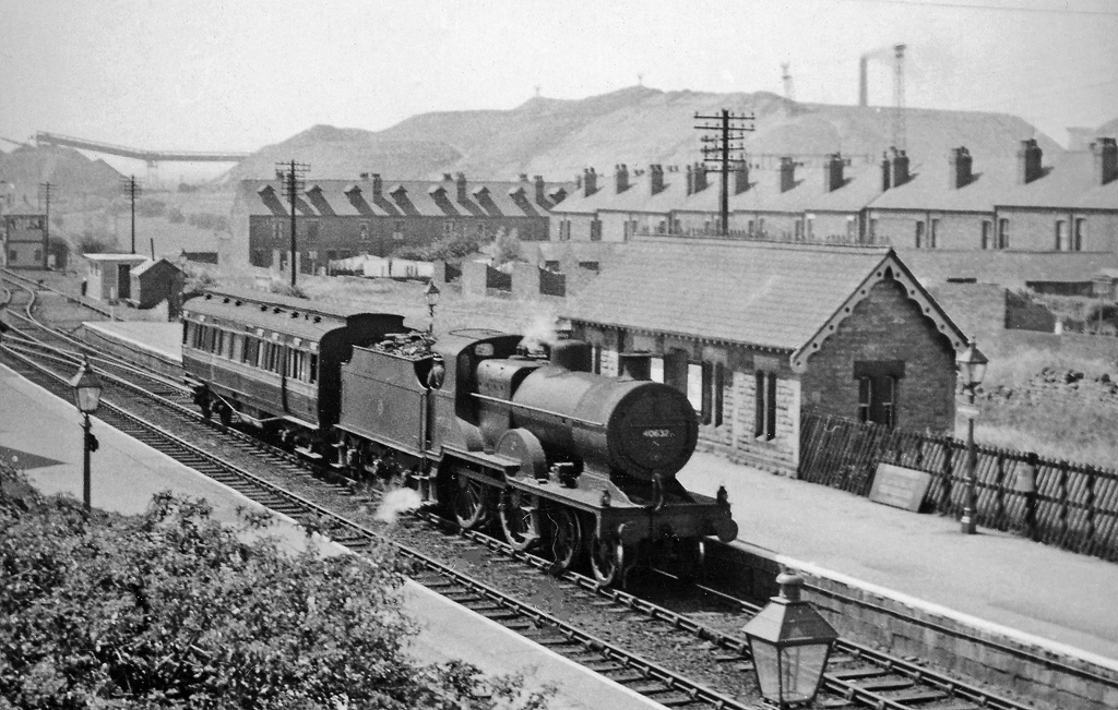 Shirebrook West Station, with train. View SW, towards Mansfield and Nottingham; ex-Midland Nottingham - Mansfield - Worksop line. Along with passenger service the station was closed on 12/10/64, but was reopened on the extension of the Robin Hood Line to Worksop on 24/5/98. In this 1957 view, an Inspection Saloon is passing, with LMS 2P 4-4-0 No. 40632. Behind, the mountainous waste-tips of the local colliery dominate the scene.